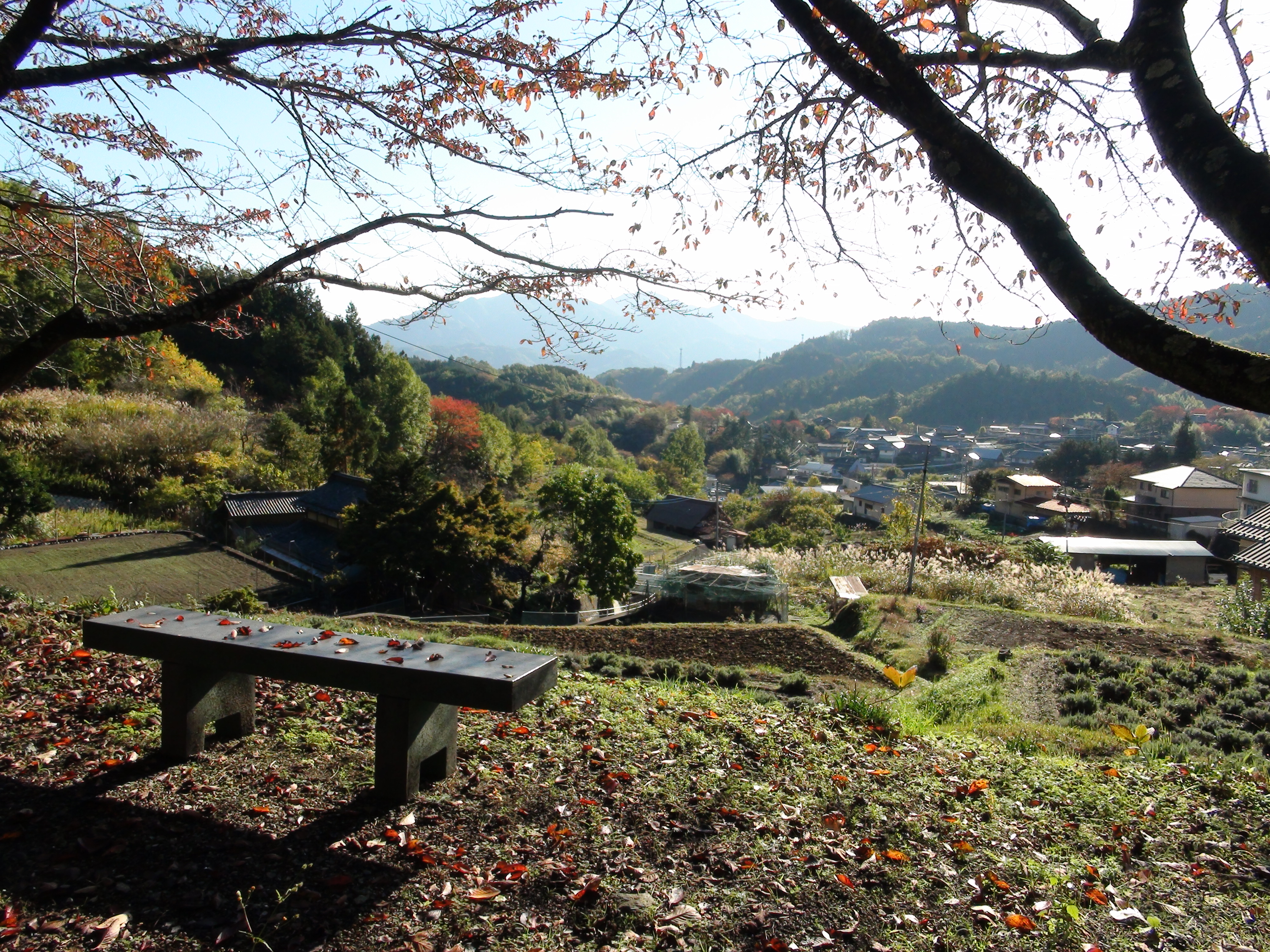 Autumn scenery of Komuro district from Myohoji.